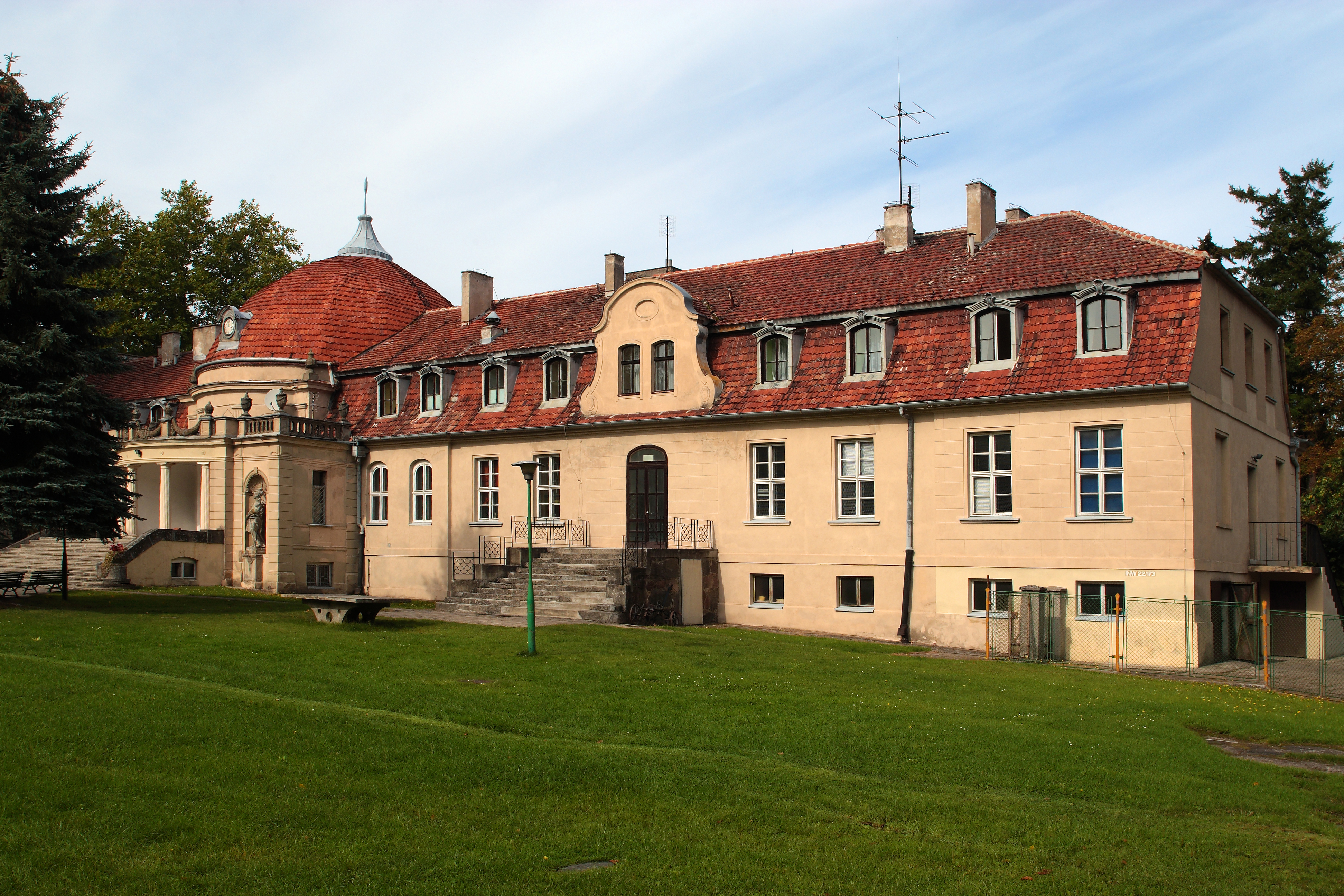 Palace in Glisno - garten face